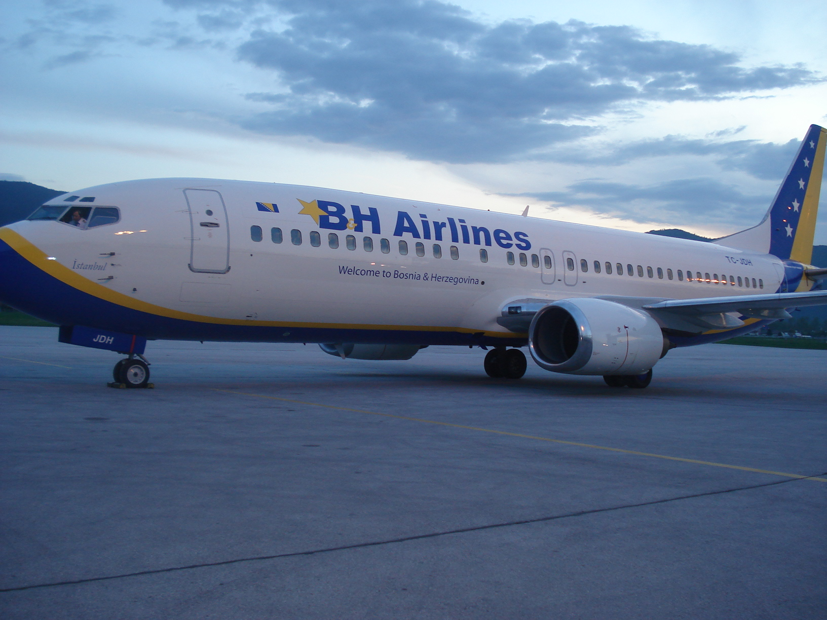 TC-JDH B&H Airlines Boeing 737-4Y0/SF at Sarajevo International Airport